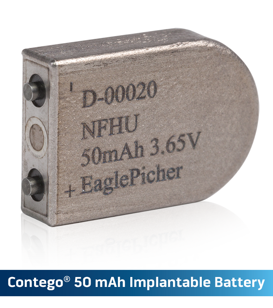 Implantable grade lightweight, high energy density cell with superior rate capability and excellent life cycle